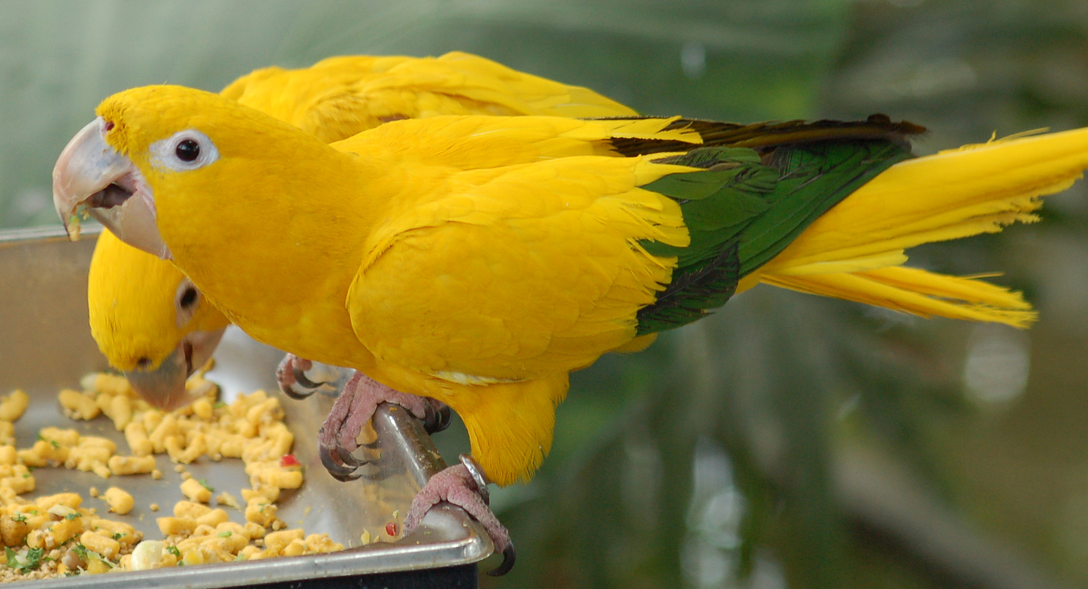 A photograph of a Golden Conureen (Guaruba guarouba en ). Photo taken at the National Aviary.